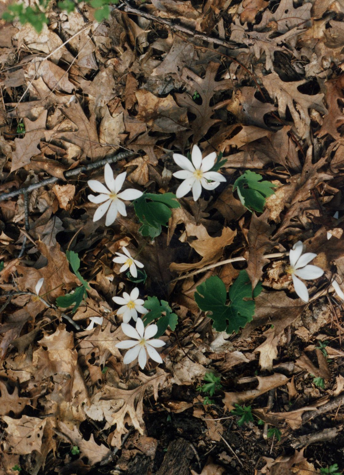 Sanguinaria canadensis, Wild Cat Den State Park, Muscatine, Iowa